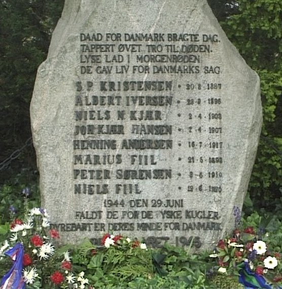 Memorial stone for the eight executed members of the Danish resistance group "Hvidstengruppen", roughly translated:Deed for Denmark brought this day. Bravely acted, true until death. Let light shine in the red of morning, They gave their lives for Denmark's cause. S. P. KRISTENSEN * 20. 8. 1887 ALBERT IVERSEN * 28. 9. 1895 NIELS N. KJÆR * 2. 4. 1903 JOH. KJÆR HANSEN * 7. 4. 1907 HENNING ANDERSEN * 16. 7. 1917 MARIUS FIIL * 21. 5. 1893 PETER SØRENSEN * 3. 6. 1914 NIELS FIIL * 12. 6. 1920 1944 on the 29 June They fell before German bullets Precious is their memory to Denmark Erected in the year 1945